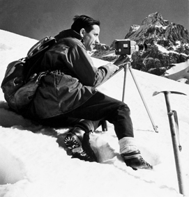 black and white Miguel Vidal picture